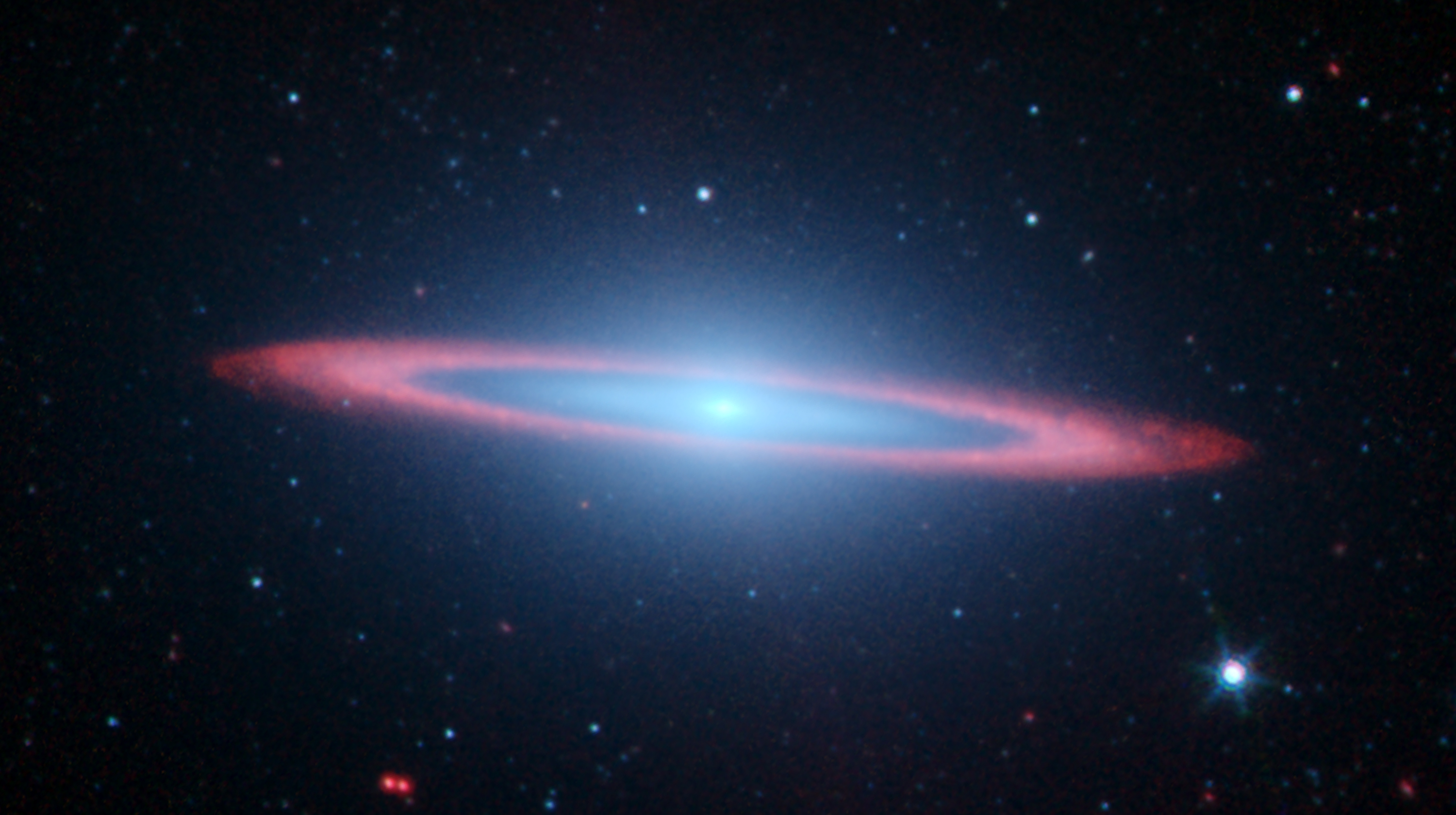 NASA's Spitzer Space Telescopes created this striking infrared image of one of the most popular sights in the universe. Messier 104 is commonly known as the Sombrero galaxy because in visible light, it resembles the broad-brimmed Mexican hat. However, in Spitzer's striking infrared view, the galaxy looks more like a "bull's eye." In visible light images, only the near rim of dust can be clearly seen in silhouette. Recent observations using Spitzer's infrared array camera uncovered the bright, smooth ring of dust circling the galaxy, seen in red. Spitzer's infrared view of the starlight, piercing through the obscuring dust, is easily seen, along with the bulge of stars and an otherwise hidden disk of stars within the dust ring. Spitzer's full view shows the disk is warped, which is often the result of a gravitational encounter with another galaxy, and clumpy areas spotted in the far edges of the ring indicate young star-forming regions. The Sombrero galaxy is located some 28 million light-years away. Viewed from Earth, it is just six degrees south of its equatorial plane. Spitzer detected infrared emission not only from the ring, but from the center of the galaxy too, where there is a huge black hole, believed to be a billion times more massive than our Sun. The Spitzer picture is composed of four images taken at 3.6 (blue), 4.5 (green), 5.8 (orange), and 8.0 (red) microns. The contribution from starlight (measured at 3.6 microns) has been subtracted from the 5.8 and 8-micron images to enhance the visibility of the dust features.